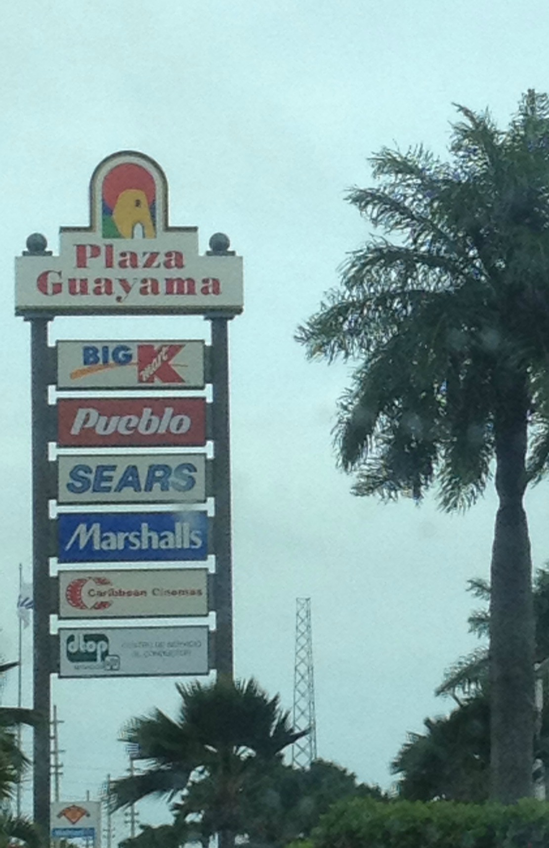 Ubicación: PR # 3, Km. 134,7 Guayama, PR 00784